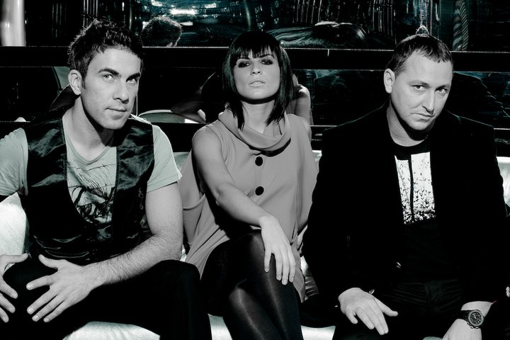 Ellie White and Dj Project in 2011